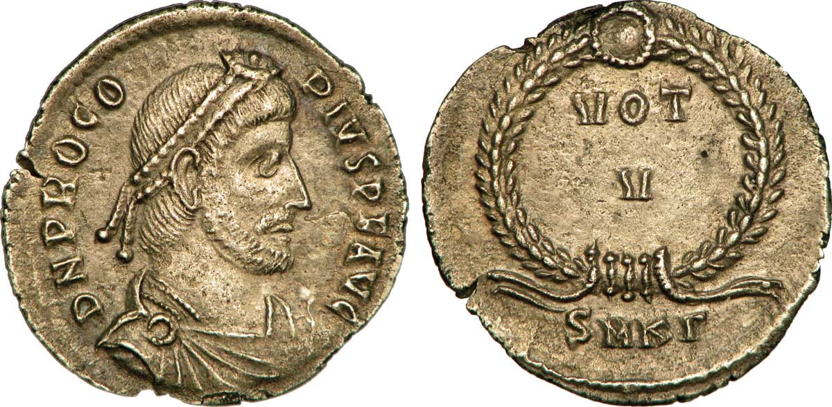 Silique à l'effigie de Procope, usurpateur en 365-366 D N PROCOPIVS P F AVG, diademed, draped and cuirassed bust right VOT V in two lines in laurel wreath